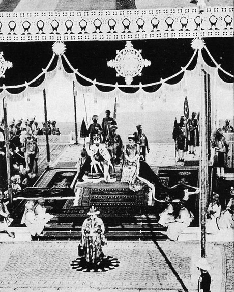 This is a picture depicting the coronation of George V at Delhi Durbar in 1911.